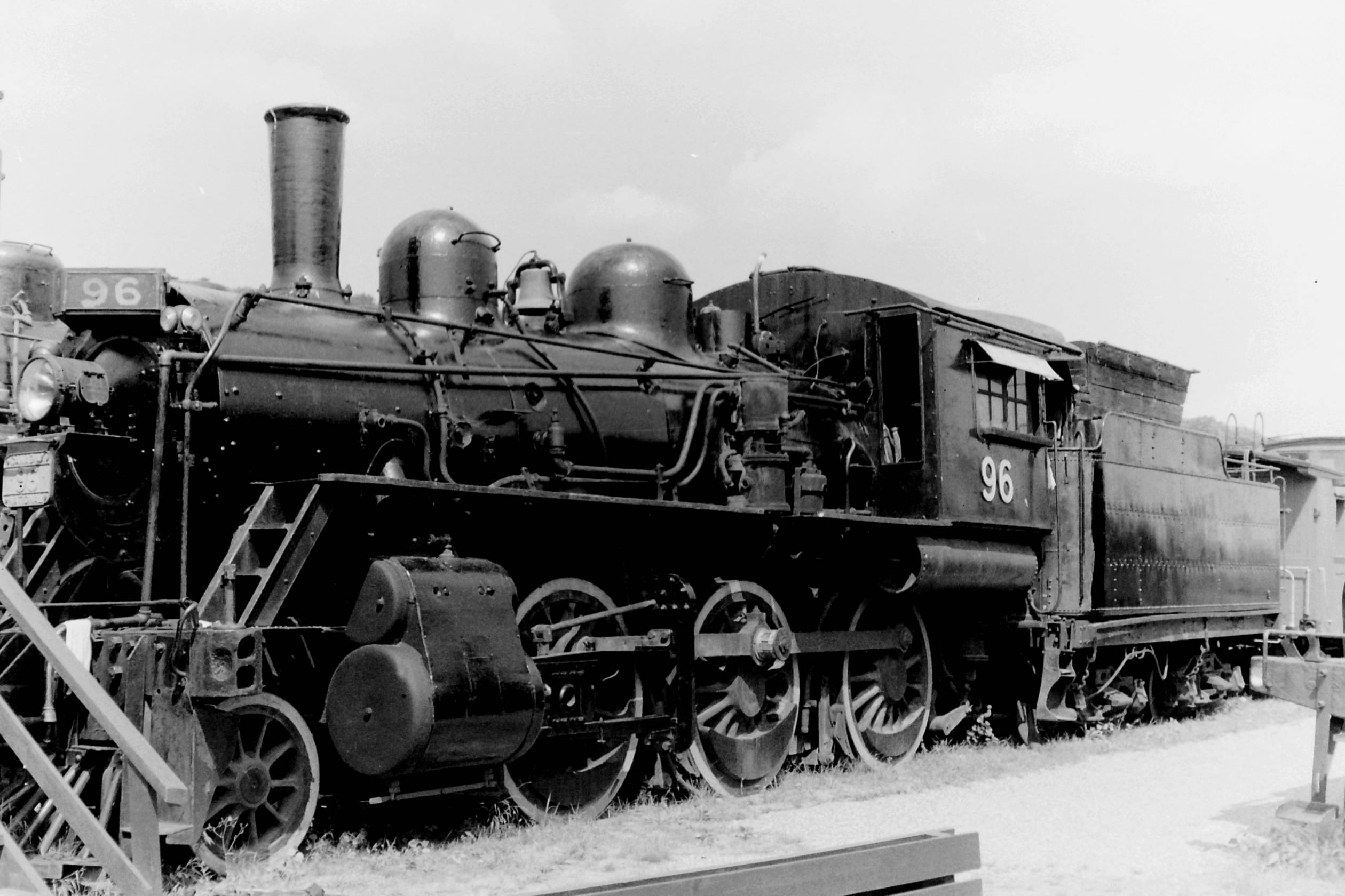 Canadian National Railways (ex-Grand Trunk Railroad) "E-10a" Class 2-6-0 No. 96 (ex-CN No.926, ex-GT No.1024), built by CLC 1910, at Steamtown, Bellows Falls, 8/70. 25 "E-10a's" were built 1910 and withdrawn 1930-60.